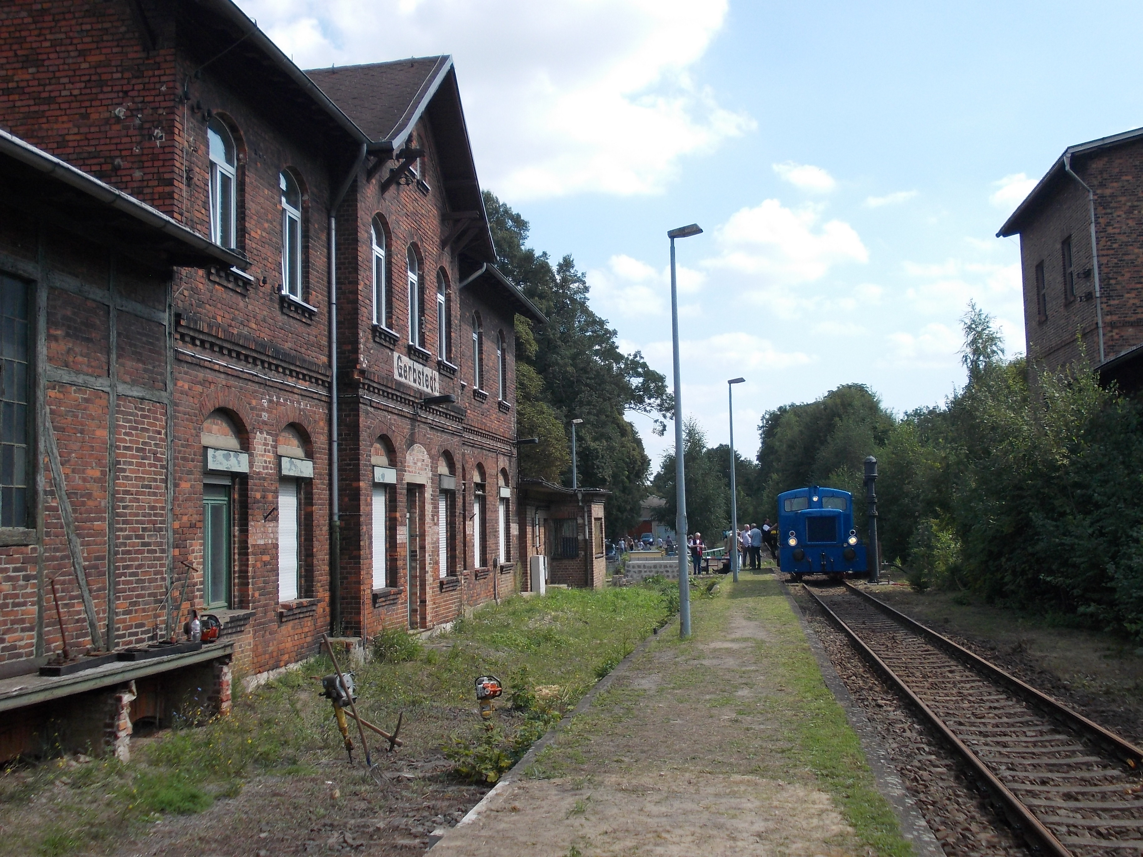 Gerbstedt train station (district of Mansfeld-Südharz, Saxony-Anhalt) with V 22 diesel locomotive of the association Friends of the Halle-Hettstedt Railway